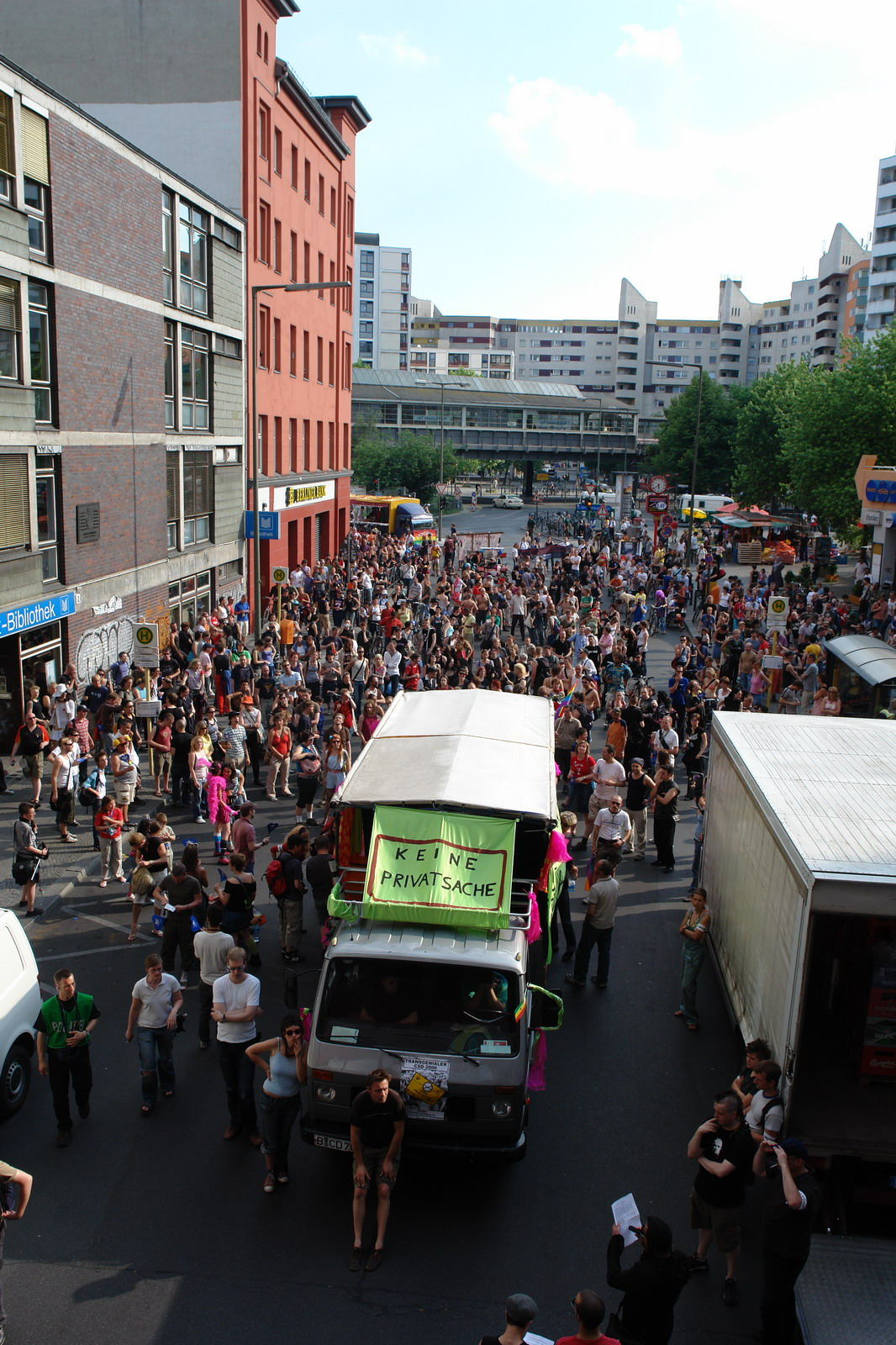 Alternative Pride March (Transgenialer CSD) in Berlin, 2006.